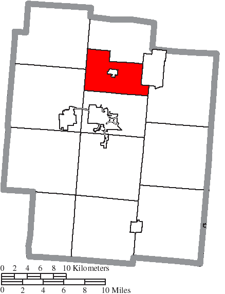 Map of the municipal and township boundaries of Jackson County, Ohio, United States, as of the 2000 census, with the location of Coal Township highlighted. Township borders are shown only in unincorporated areas in order to differentiate incorporated and unincorporated areas more clearly.